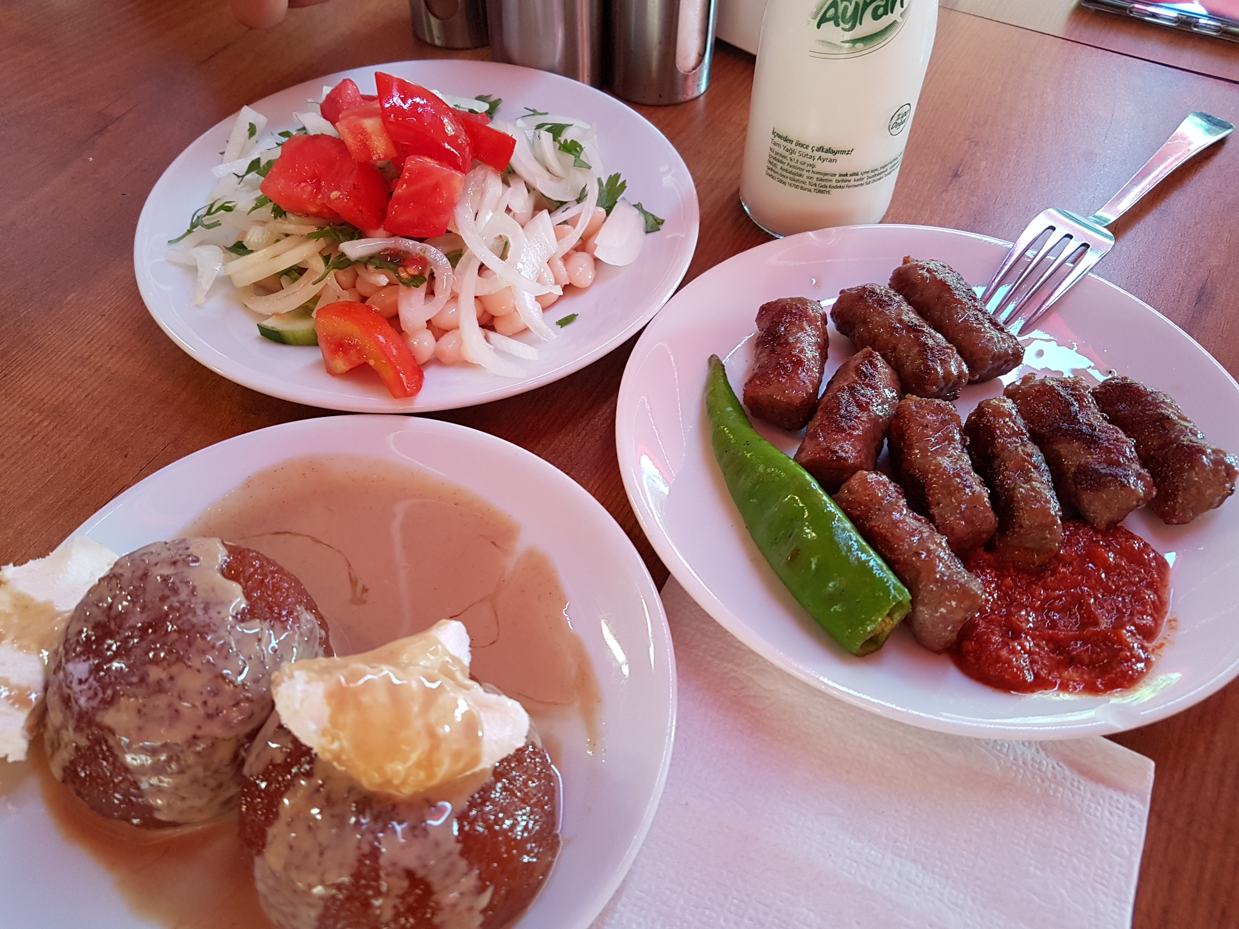 A meal in Turkey, consisting of "Tekirdağ köfte", "piyaz", Kemalpaşa dessert with "kaymak", etc.